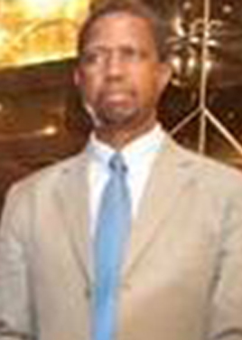 Ambassador Eric Schultz met with Patriotic Front presidential candidate Edgar Lungu on December 15 to discuss the upcoming elections.